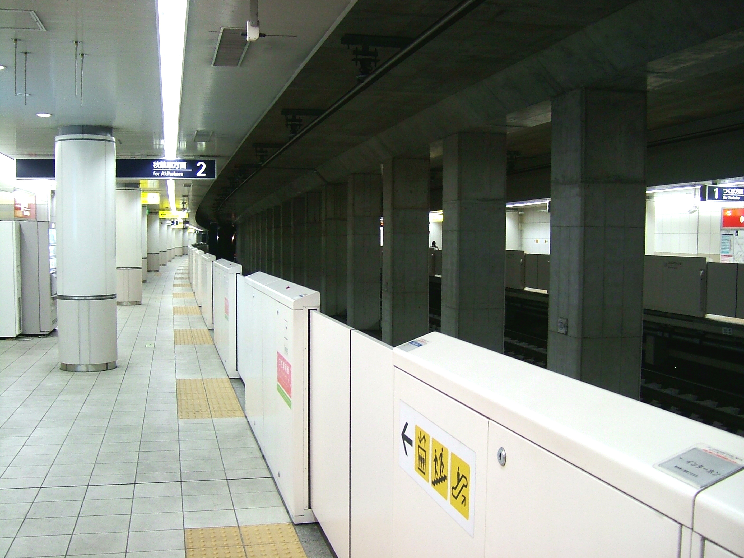 Minami-Senju Station platform (Tsukuba Express)